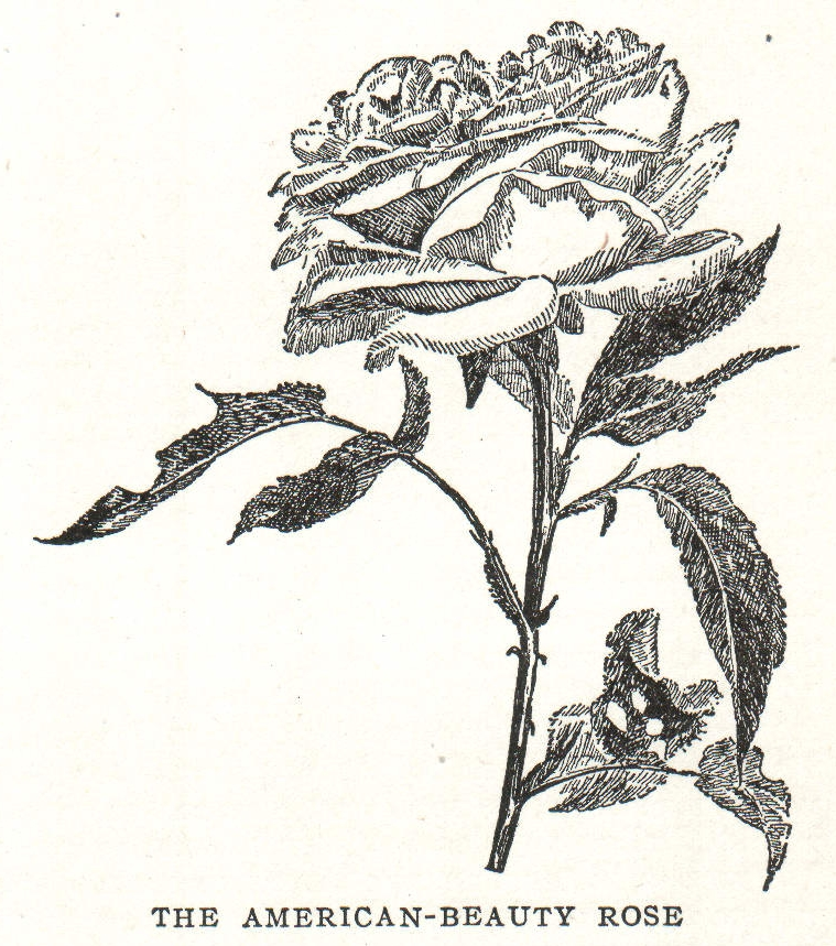 Rosa 'American Beauty'